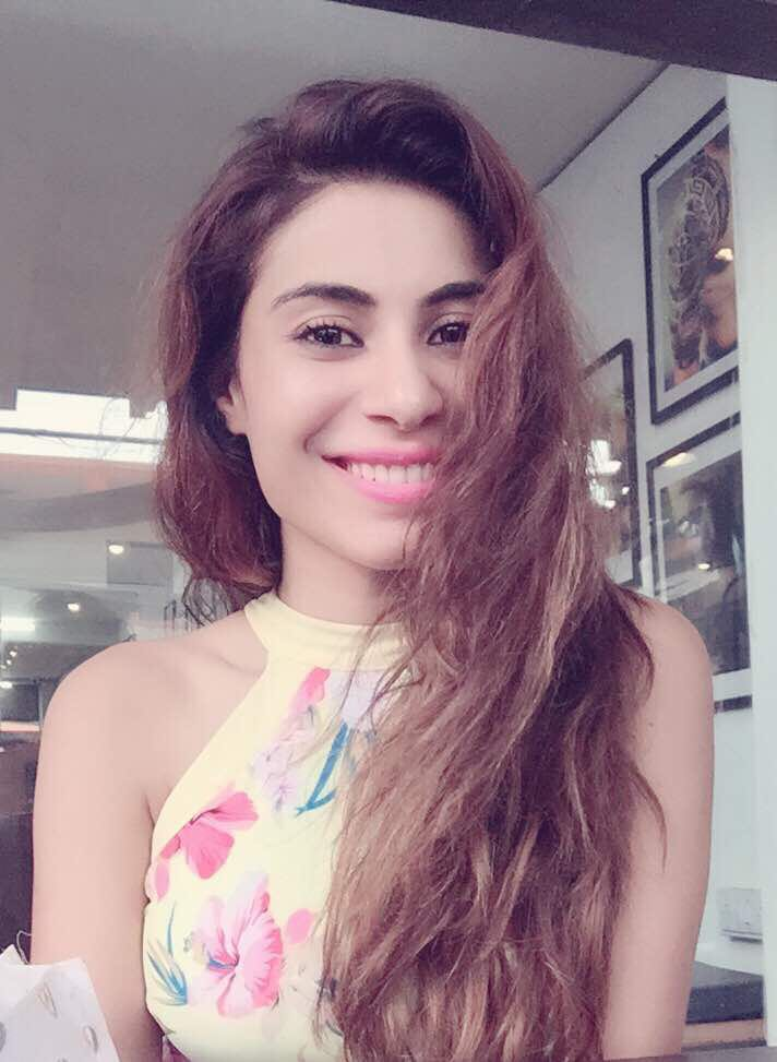 Roma Arora